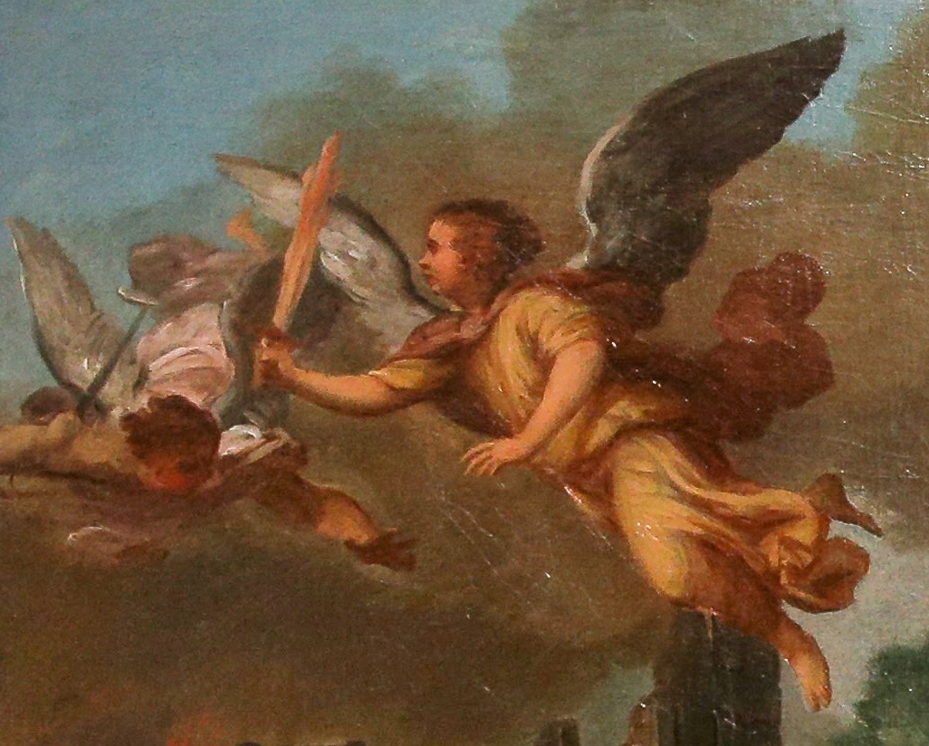 The Earthquake of 1755, painted from 1756 to 1792 by João Glama Ströberle (1708-1792). Currently in the National Museum of Ancient Art, Lisbon, Portugal.